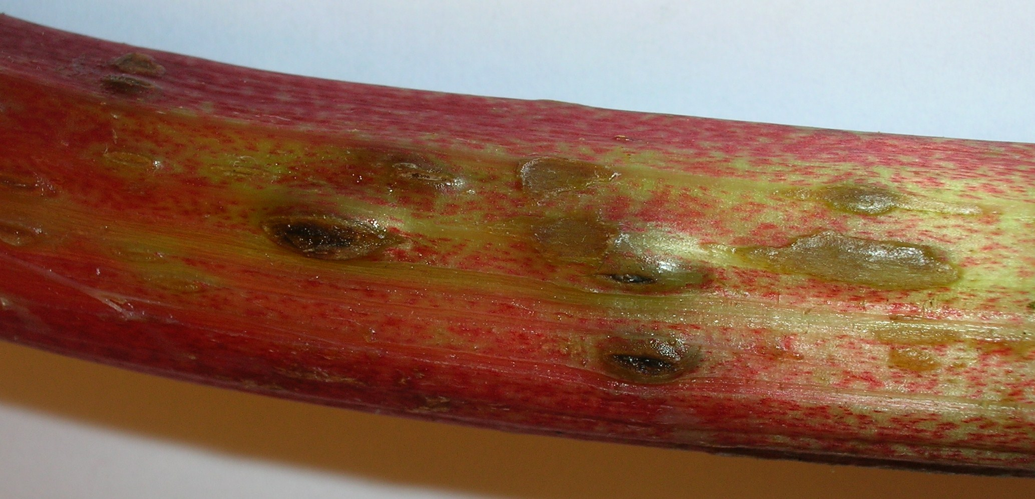 Feeding and egg laying pits on Rhubarb stalk caused by Lixus concavus, the Rhubarb curculio.